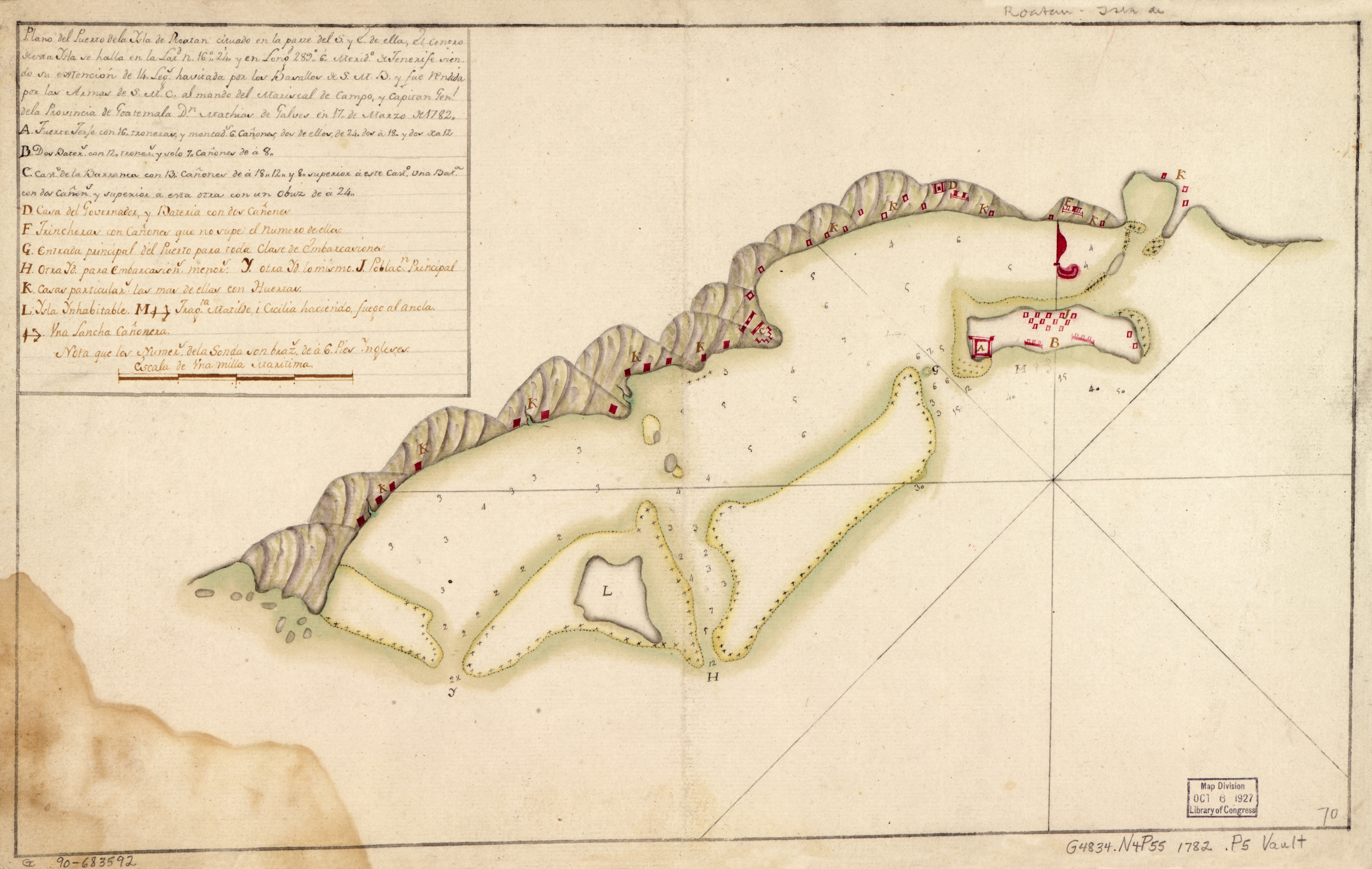 A map of the (now) Honduran isle of Roatán. The map was probably made by a Spanish military engineer after the 1782 Battle of Roatán.